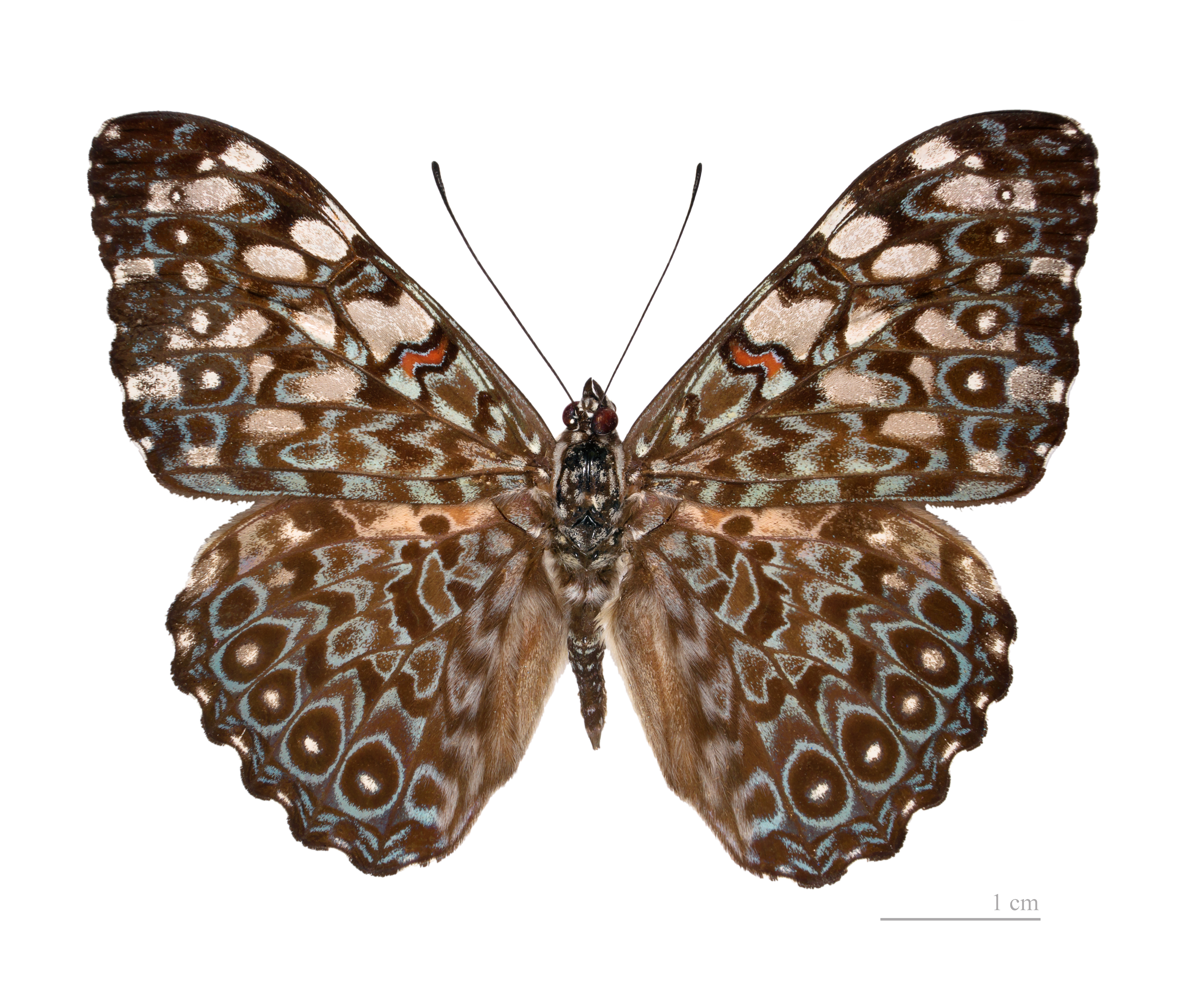 ♂ - Dorsal side Locality : Kaw road, departing runway Fourgassié, French Guiana.